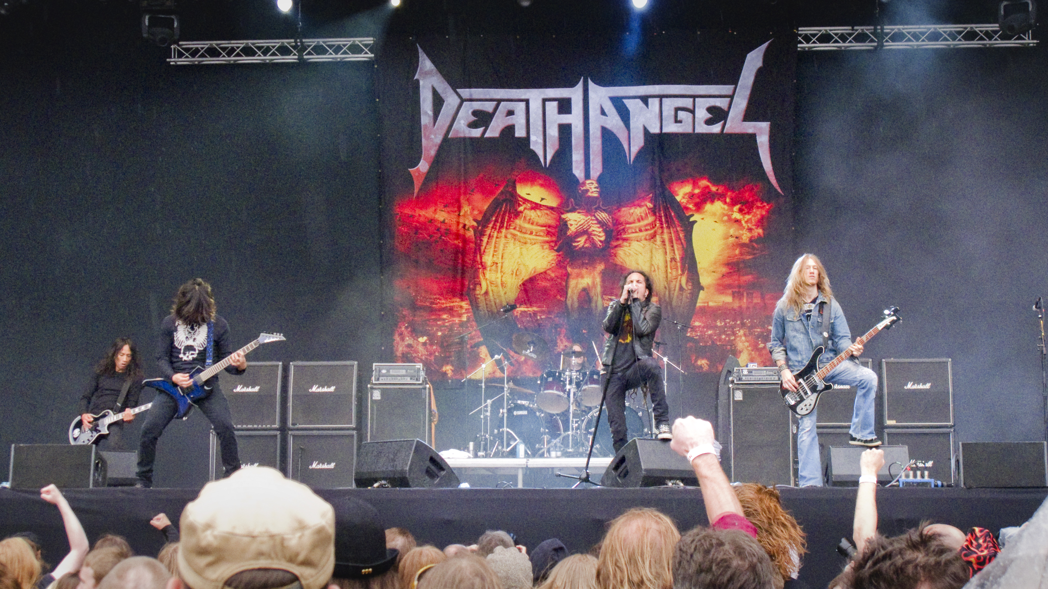 Death Angel playing at Sauna Open Air 2010. Location: Tampere, Finland.